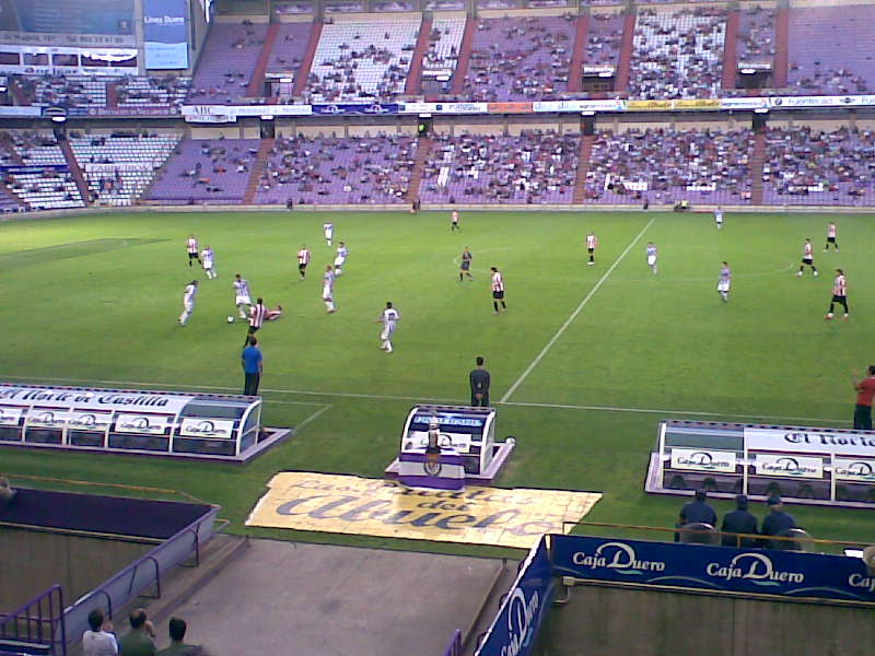 XXXVI Trofeo Ciudad de Valladolid